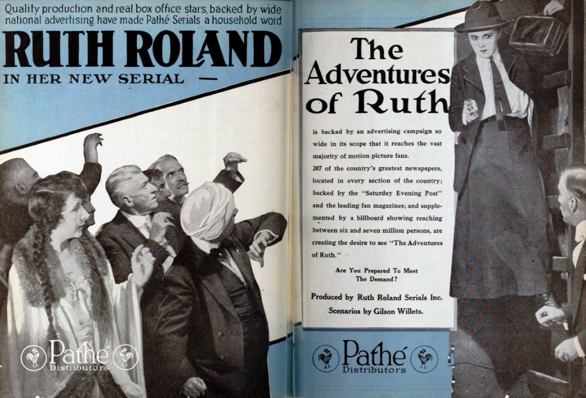 Advertisement for the American film serial The Adventures of Ruth (1919) with Ruth Roland, on pages 16 and 17 of the January 24, 1920 Exhibitors Herald.